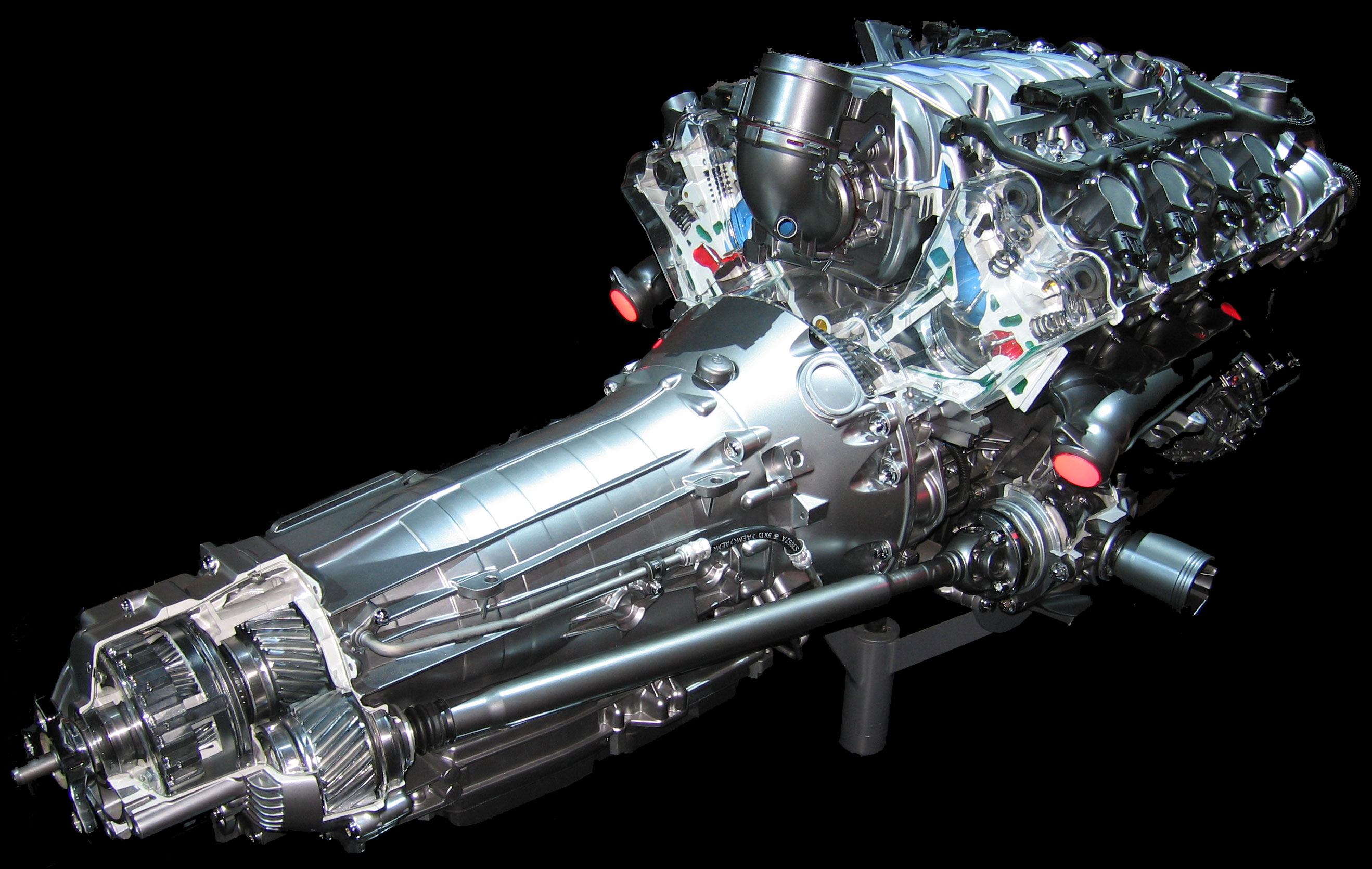 Mercedes-Benz 4matic gearbox